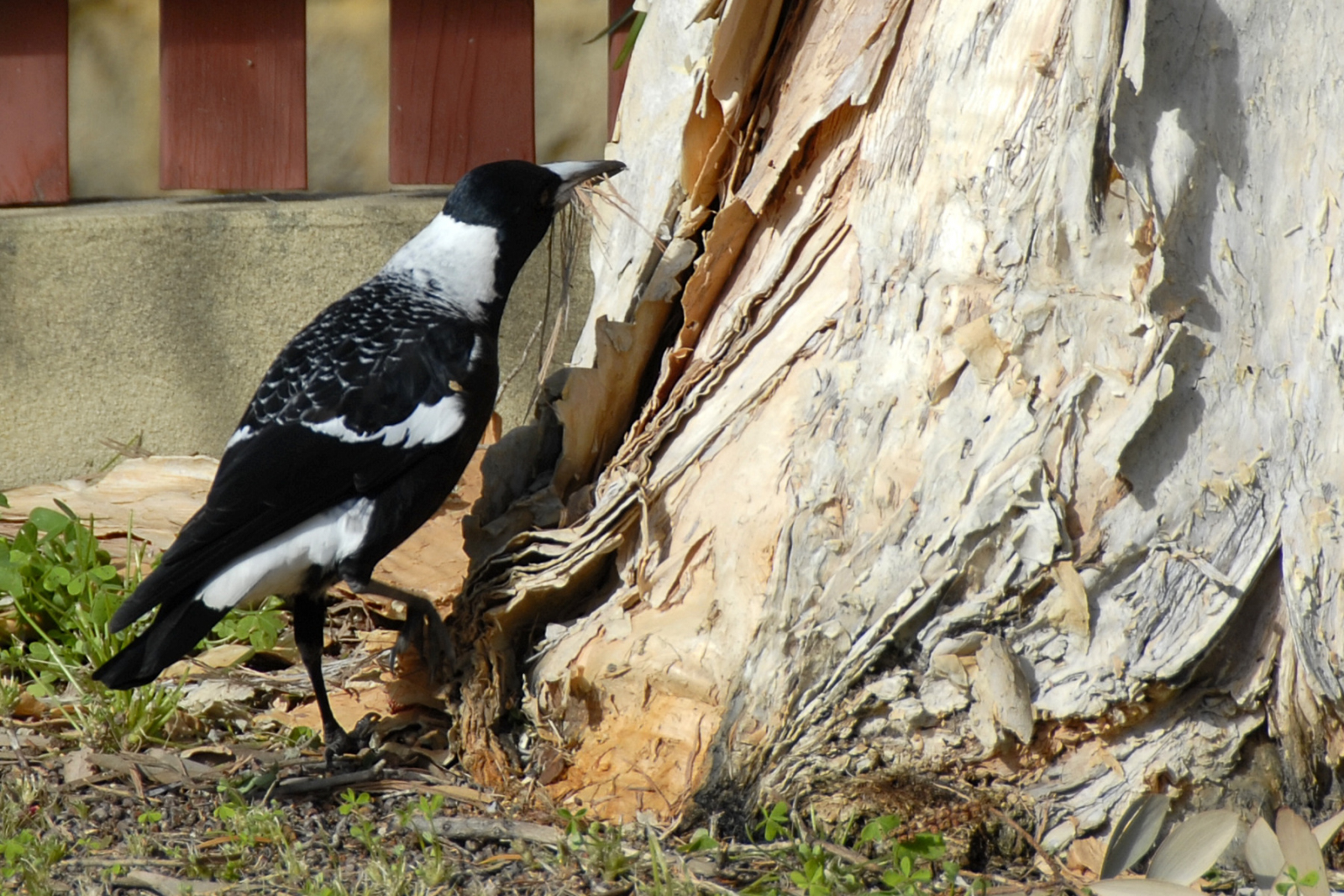 Gymnorhina tibicen female, race dorsalis in a Fremantle surburb, presumably collecting nesting material from a paperbark (but you-never-know with this mob?!). Distinguished by the scalloped back.